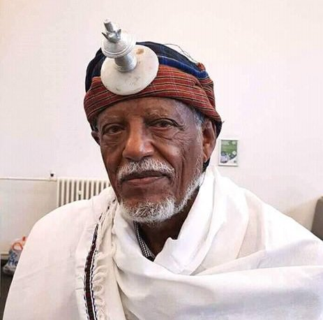 Professor Asmerom Legesse is the pioneer of Gadaa study.